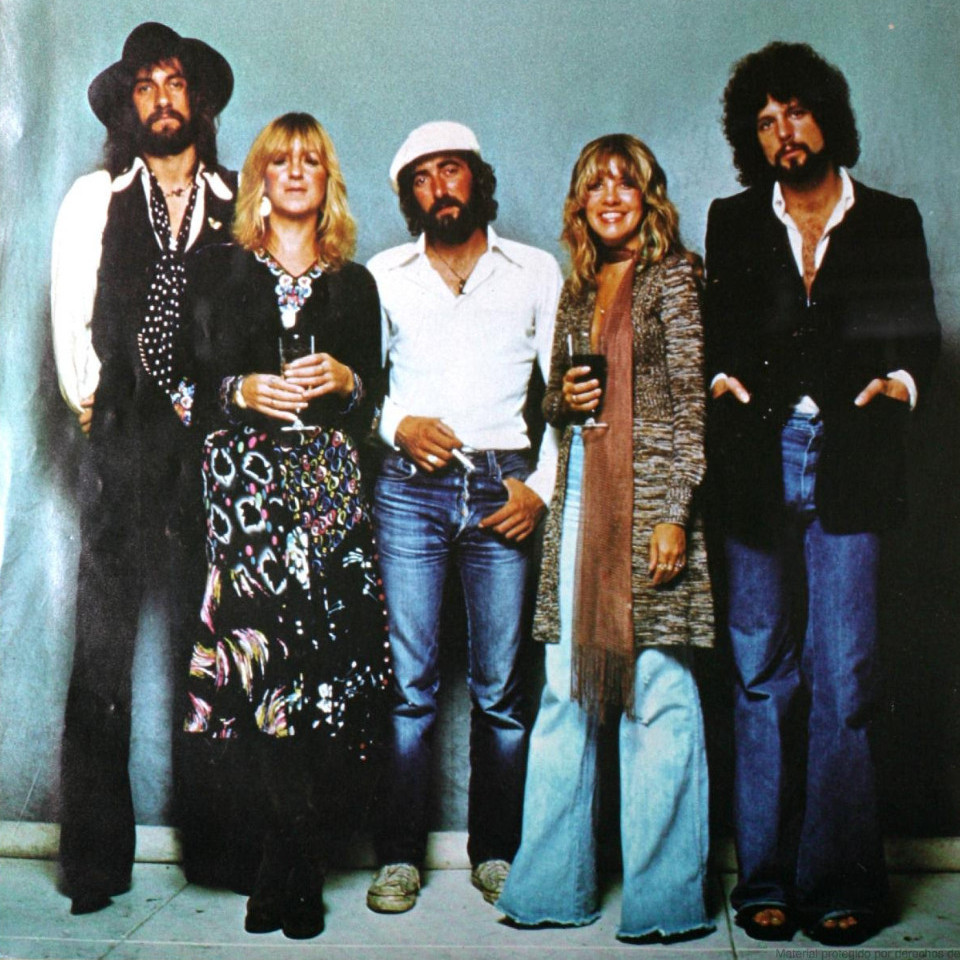 Group advertising photograph of Fleetwood Mac for their album Rumours. From left to right: Mick Fleetwood, Christine McVie, John McVie, Stevie Nicks and Lindsey Buckingham. The photograph was published on the 25 June 1977 issue of Billboard magazine, thus being an advertising pre-1978 photograph with no explicit copyright notice it is in public domain